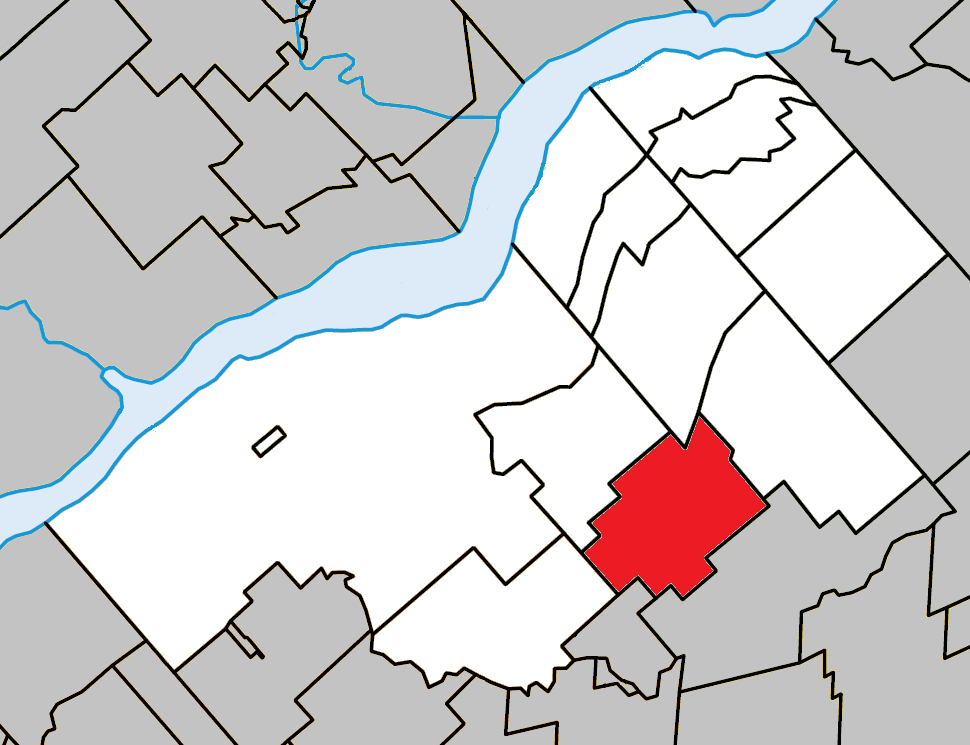 Location of Lemieux, Quebec within Bécancour Regional County Municipality.